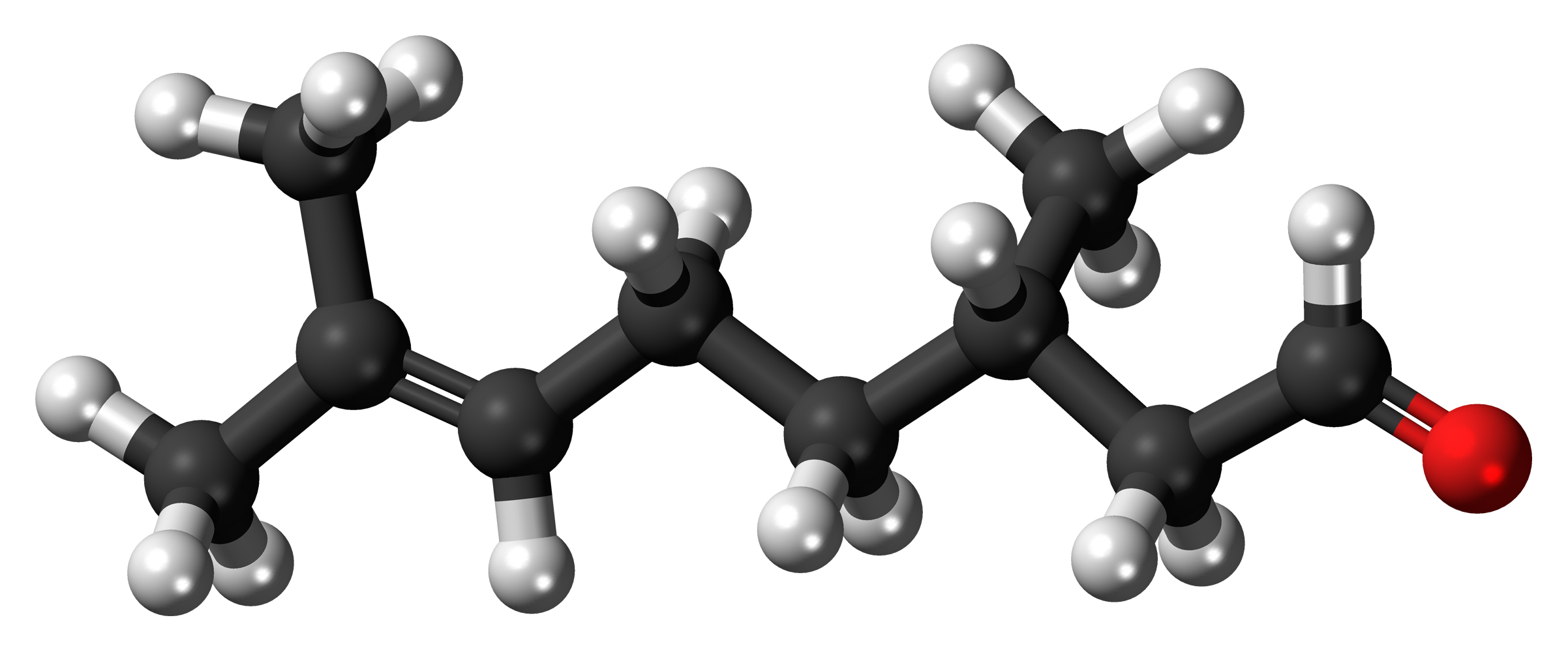 Ball-and-stick model of the citronellal molecule, a compound responsible for the distinctive scent of citronella oil. This image shows the (-) isomer. Colour code: Carbon, C: black Hydrogen, H: white Oxygen, O: red